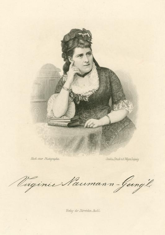 German operatic soprano Virginia Naumann-Gungl (1848-1915)